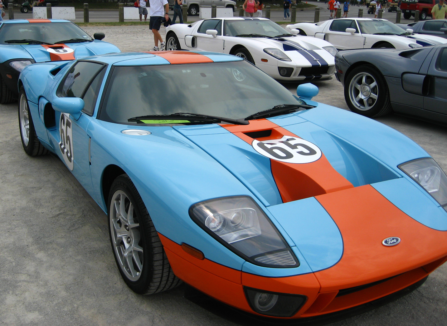 A Ford GT on display at the 2007 Indianapolis 500 Carb Day